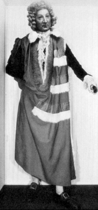 Wax model portrait of William Pitt, Earl of Chatham, by Patience Lovell Wright (1725-1786), 1779.